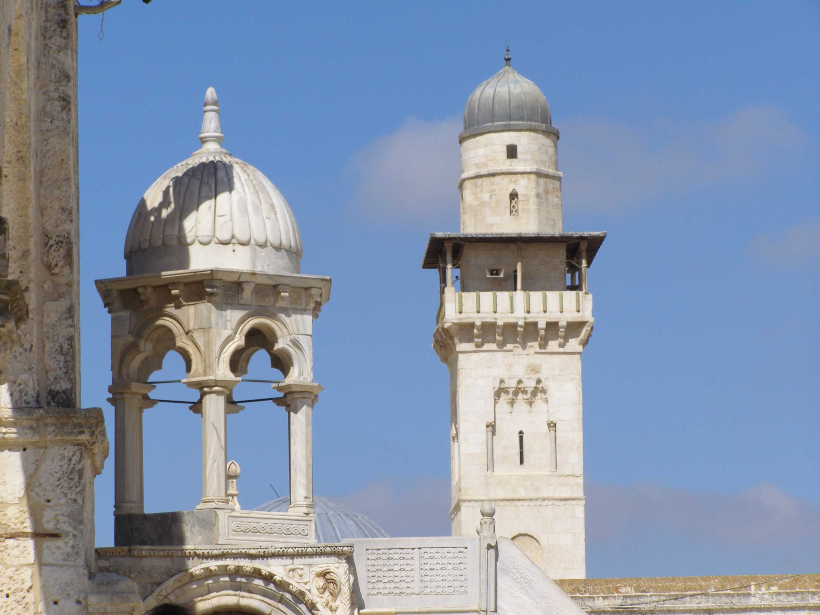 Temple Mount, Jerusalem The summer preacher's stand and the minarett of bab alsalsila